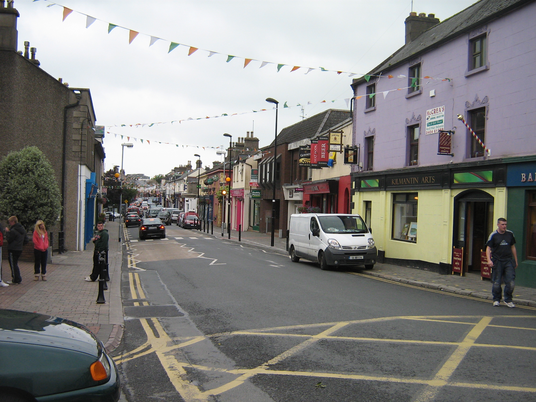 Mainstreet of Wicklow in 2009